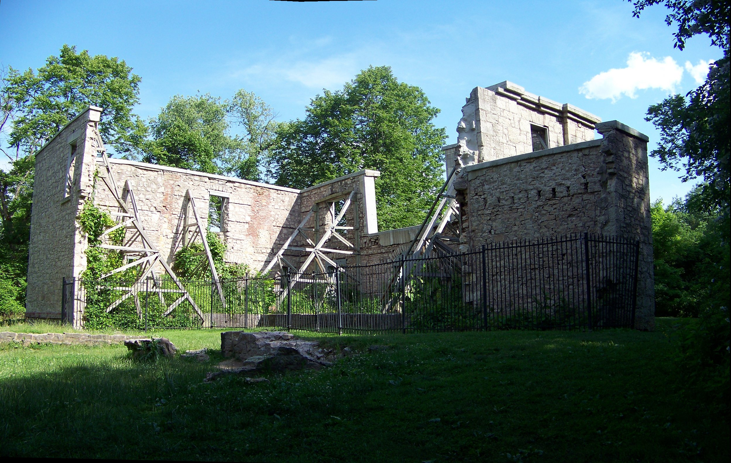 Ruins of the Hermitage at the Dundas Valley Conservation Area.